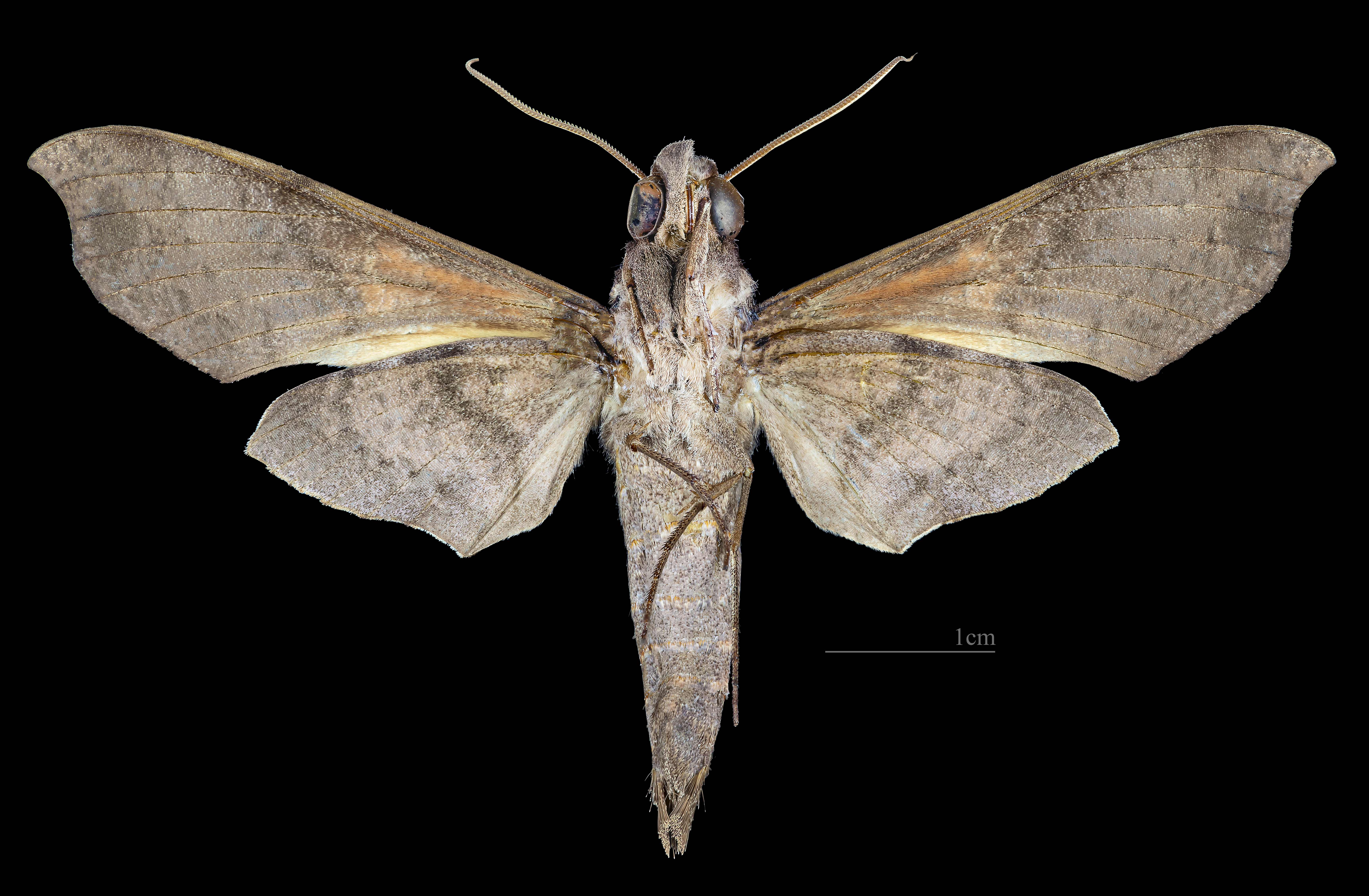 Callionima acuta - △ Ventral side Collection of the Mathematician Laurent Schwartz